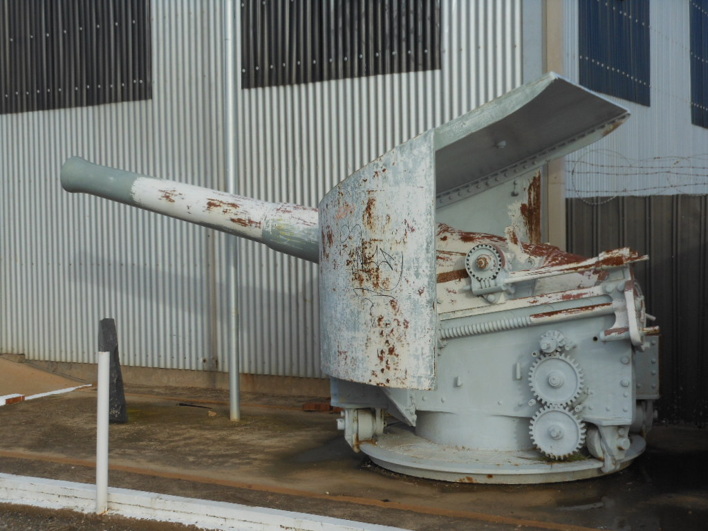 Photograph of a BL 6-inch 80-pounder gun from HMAS Protector, outside the navy Cadets Depot in Birkenhead, Adelaide, South Australia.